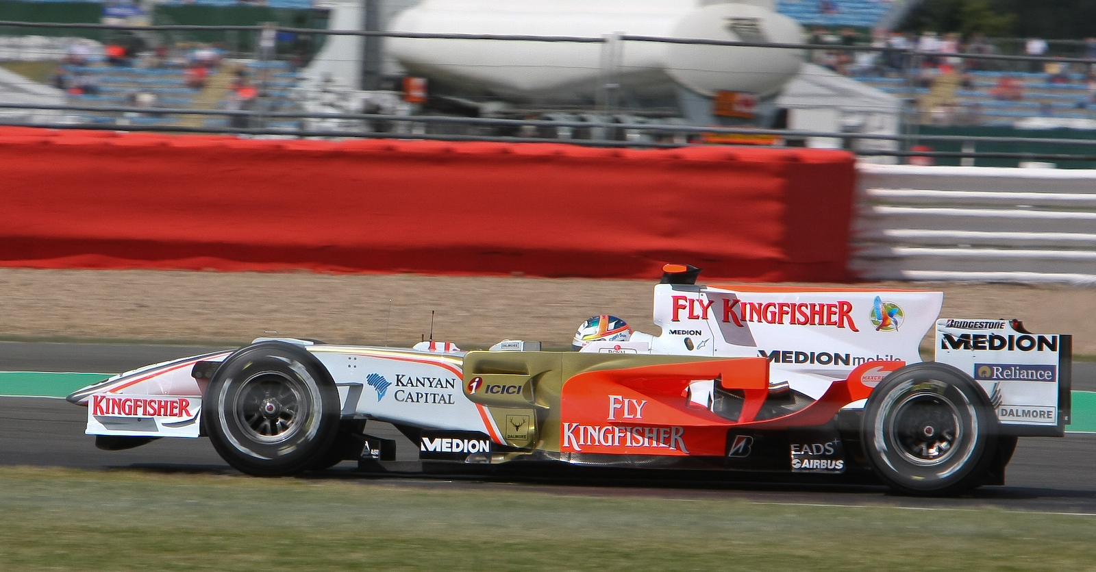 Adrian Sutil driving for Force India at the 2008 British Grand Prix.